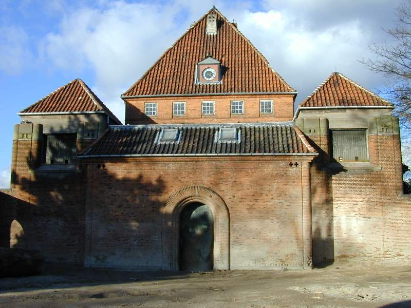 The Old Elephant House in Copenhagen Zoo